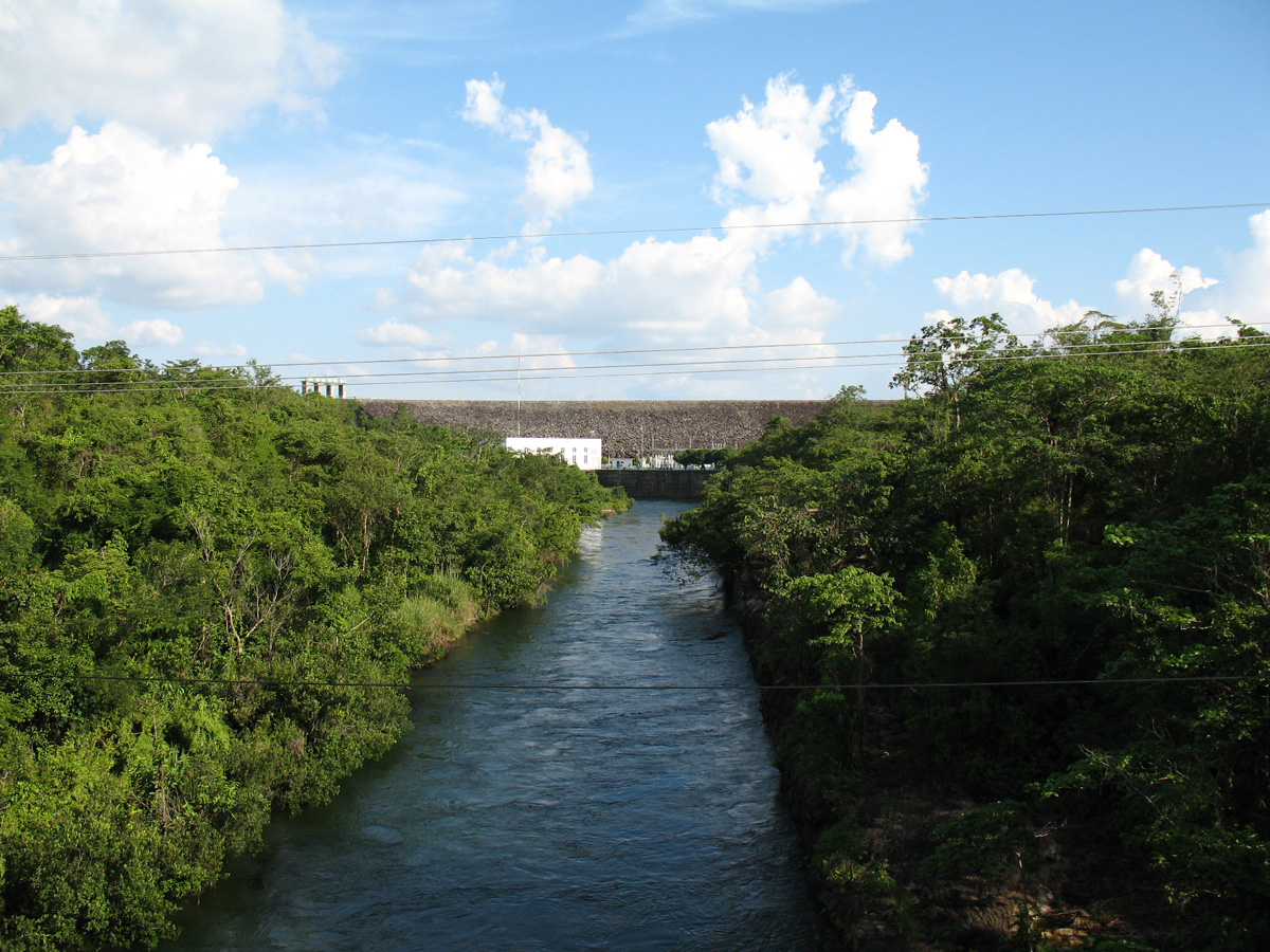 The Dom Noi River that stopped by the Sirindhorn Dam, Amphoe Sirindhorn, Ubon Ratchathani.